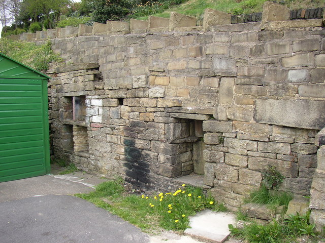 Remains of cottages, Clay Well / Carr Top Lane, Golcar Cottages were often built 'back-to earth' and cupboards made set into the retaining wall. These would be cool for storing food. After the cottages have been demolished the cupboards remain.